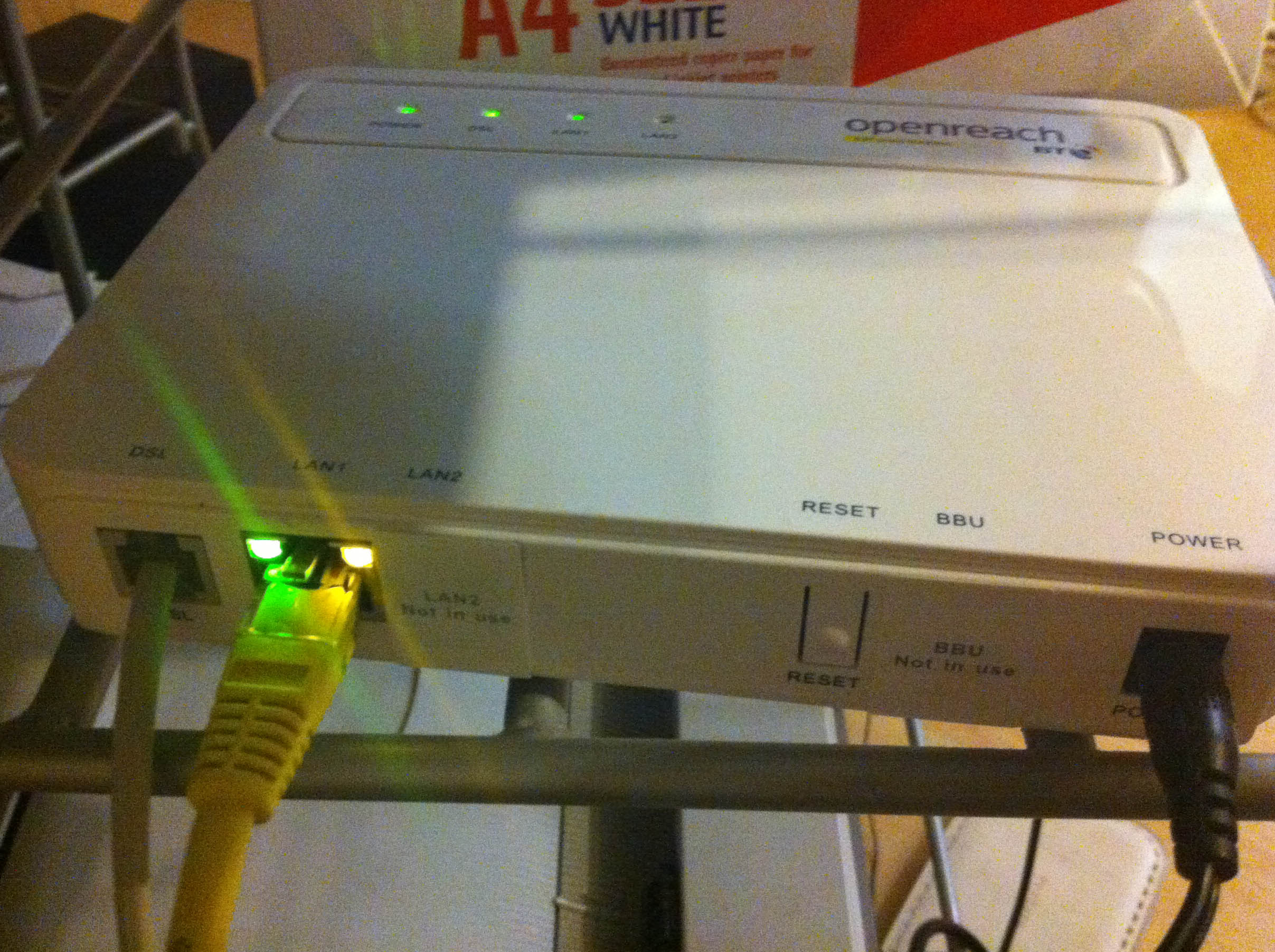 This is the modem BT install when you upgrade your broadband to FTTC (and you are not a BT customer). You connect it to your router - it is a bit of a black box - no instructions or configuration. I don't know what the BBU is! Model: Huawei Echolife HG612 FTTC VDSL NTC